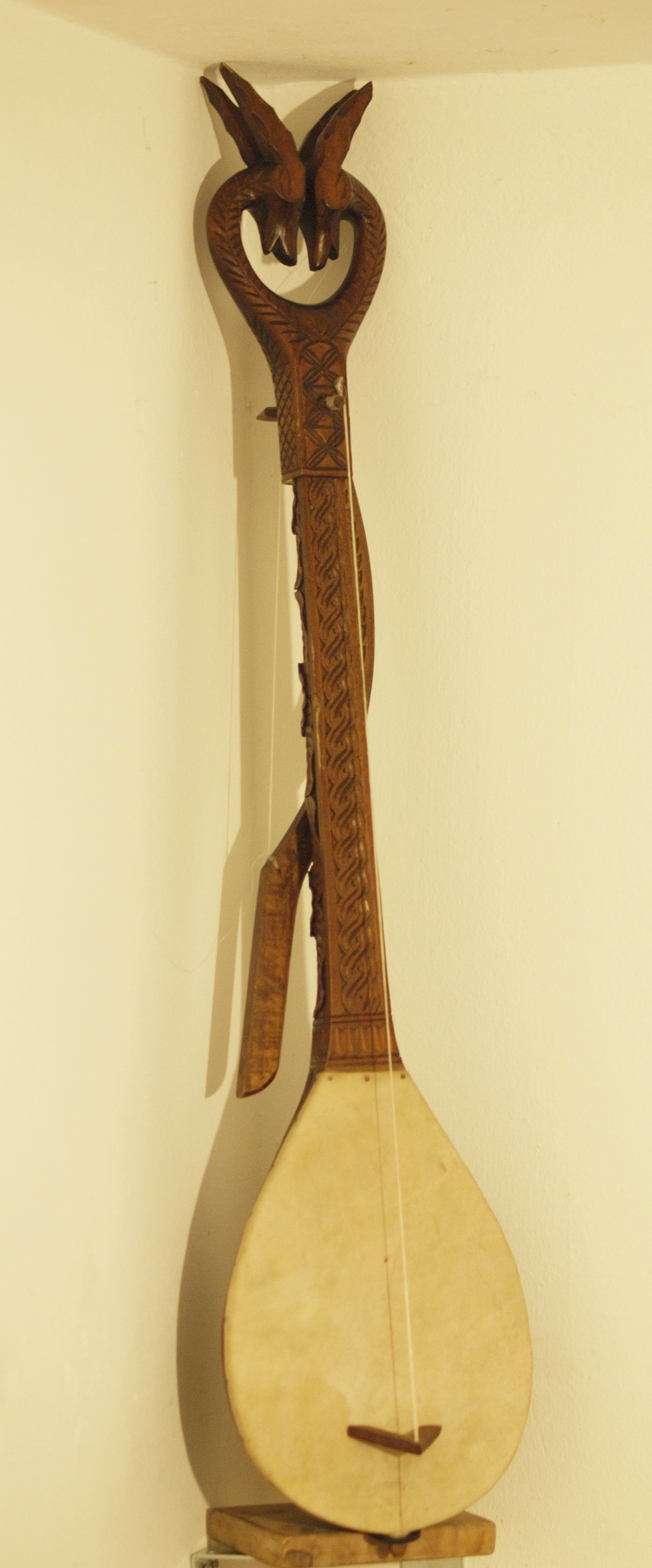 Gusle